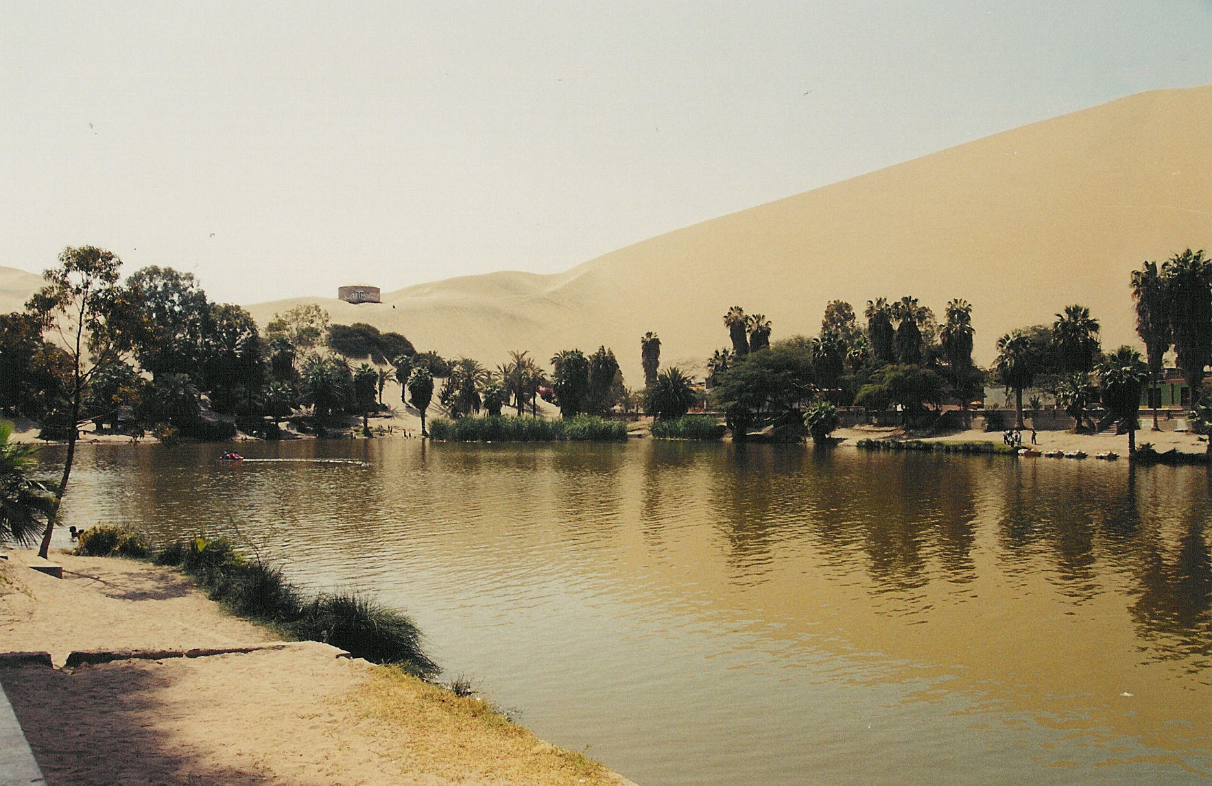 Oasis near Ica in Peru